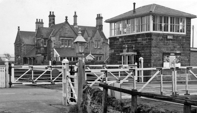 Beal Station. View southward, towards Newcastle; ex-NER East Coast Main Line, Newcastle - Berwick-on-Tweed - Edinburgh. Between Berwick and Chathill. This station was closed 29/1/68 -- but should not have been, as it was the station for Holy Island -- see also Belford.